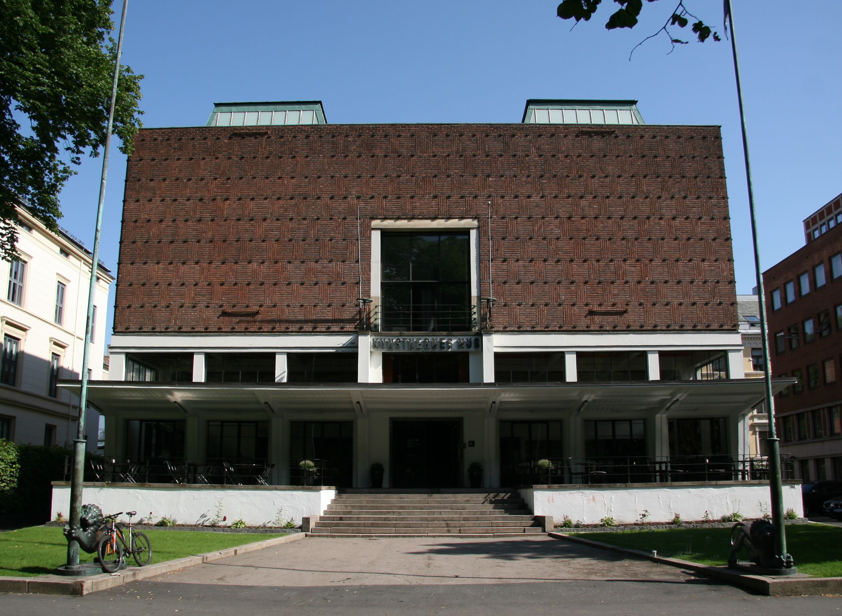 Kunstnernes Hus. Oslo, Norway